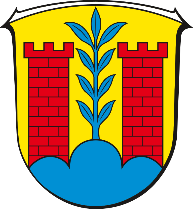 Coat of Arms of Münzenberg